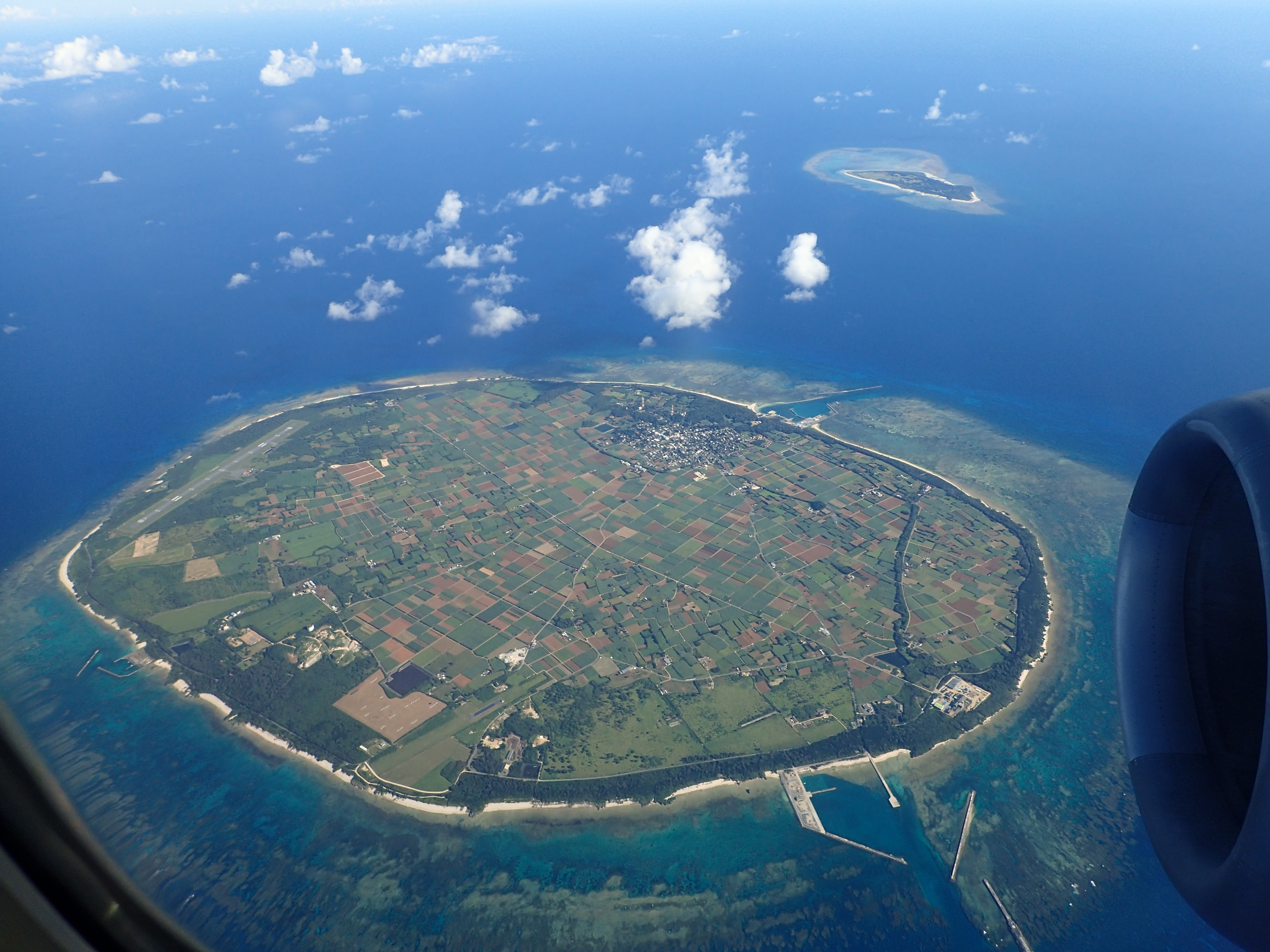 Tarama Island and Minna Island (upper right), Okinawa, Japan.